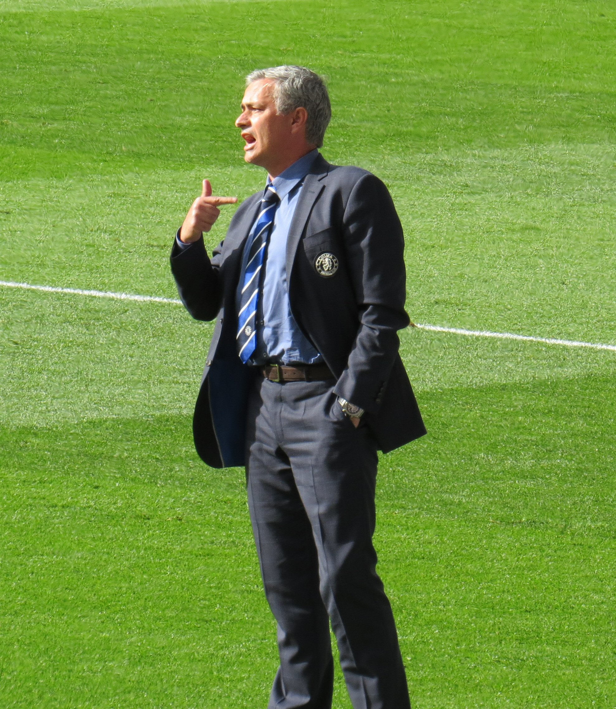 Jose Mourinho on the touchline at Stamford Bridge Oct 2014